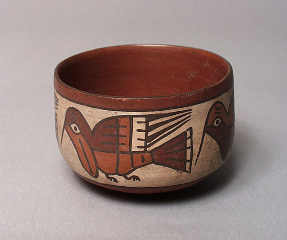 Peru, Early Nasca, 100 B.C. - A.D. 300 Furnishings; Serviceware Ceramic, hand built, slip decorated, burnished and fired 2 1/2 x 4 1/4 in. (6.35 x 10.8 cm) Gift of Nasli M. Heeramaneck (M.73.48.56) Art of the Ancient Americas